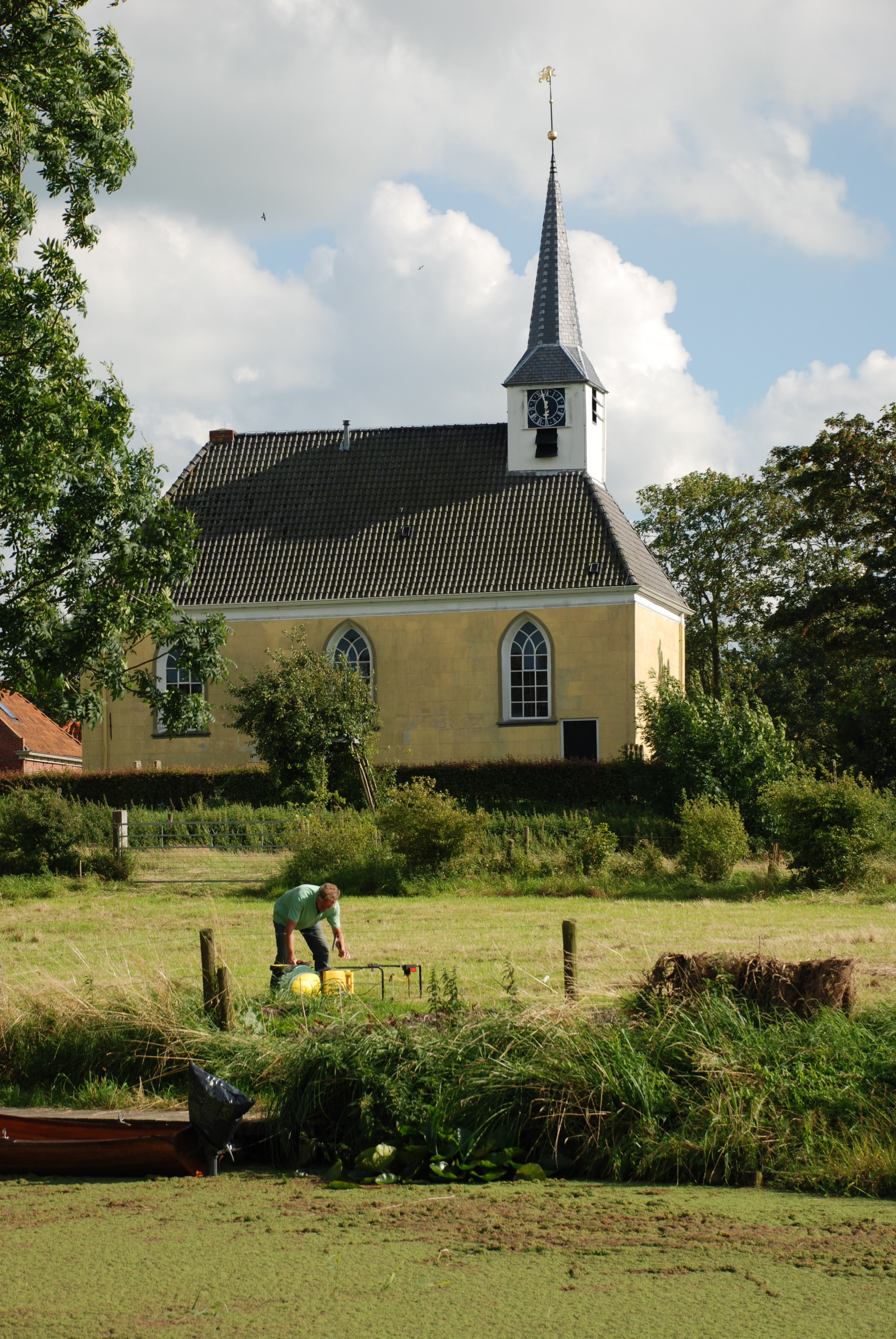 The church of Stitswerd and the village harbour